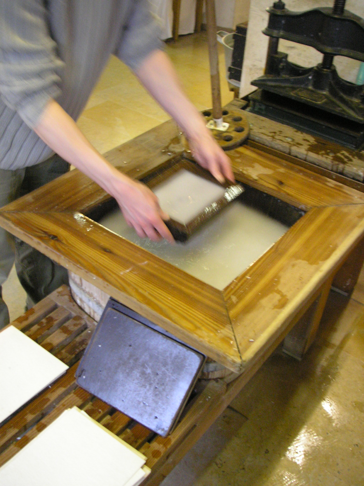 The production of hand-made paper. The pulp accumulates in the wooden-framed screen which is carefully taken out so that the pulp settles equally on all sides. The wooden frame is removed. The water drips away from the screen until the pulp sticks safely to it. With a swift move, the screen is put up-side down on a wooden block and pressed hard, so that is releases itself from the screen onto the block. The different sheets of pulp are separated by sheets of waterproof paper or fabric. After repeating the cycle a couple of times, sheets are taken to the press where they are put under pressure to press the last moisture out. The sheets are then put into a hot-press where they are dried.